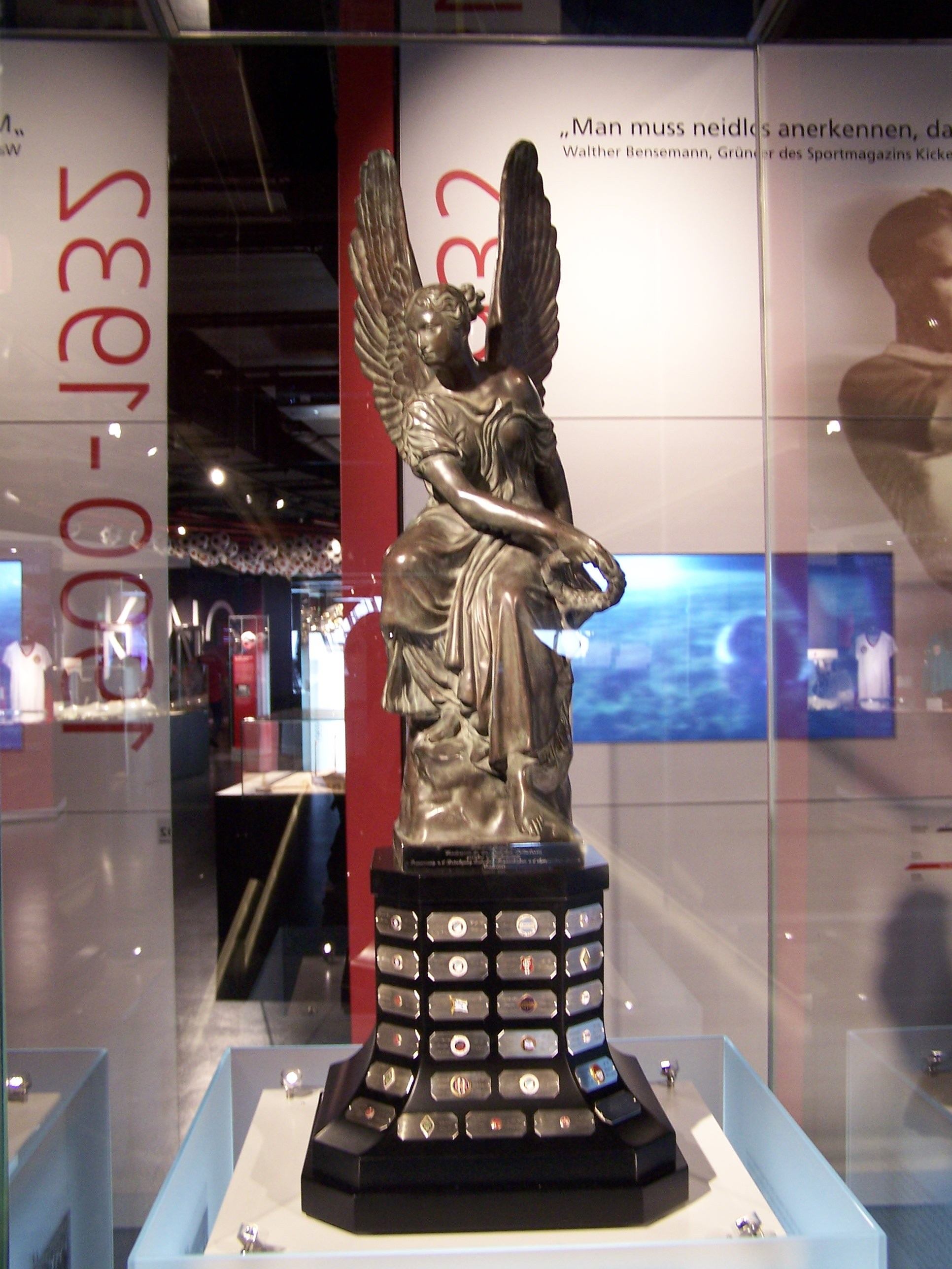 Picture was taken at FCB Erlebniswelt. It shows a replica of the Viktoria, the trophy Bayern received for their first national title, 1932.